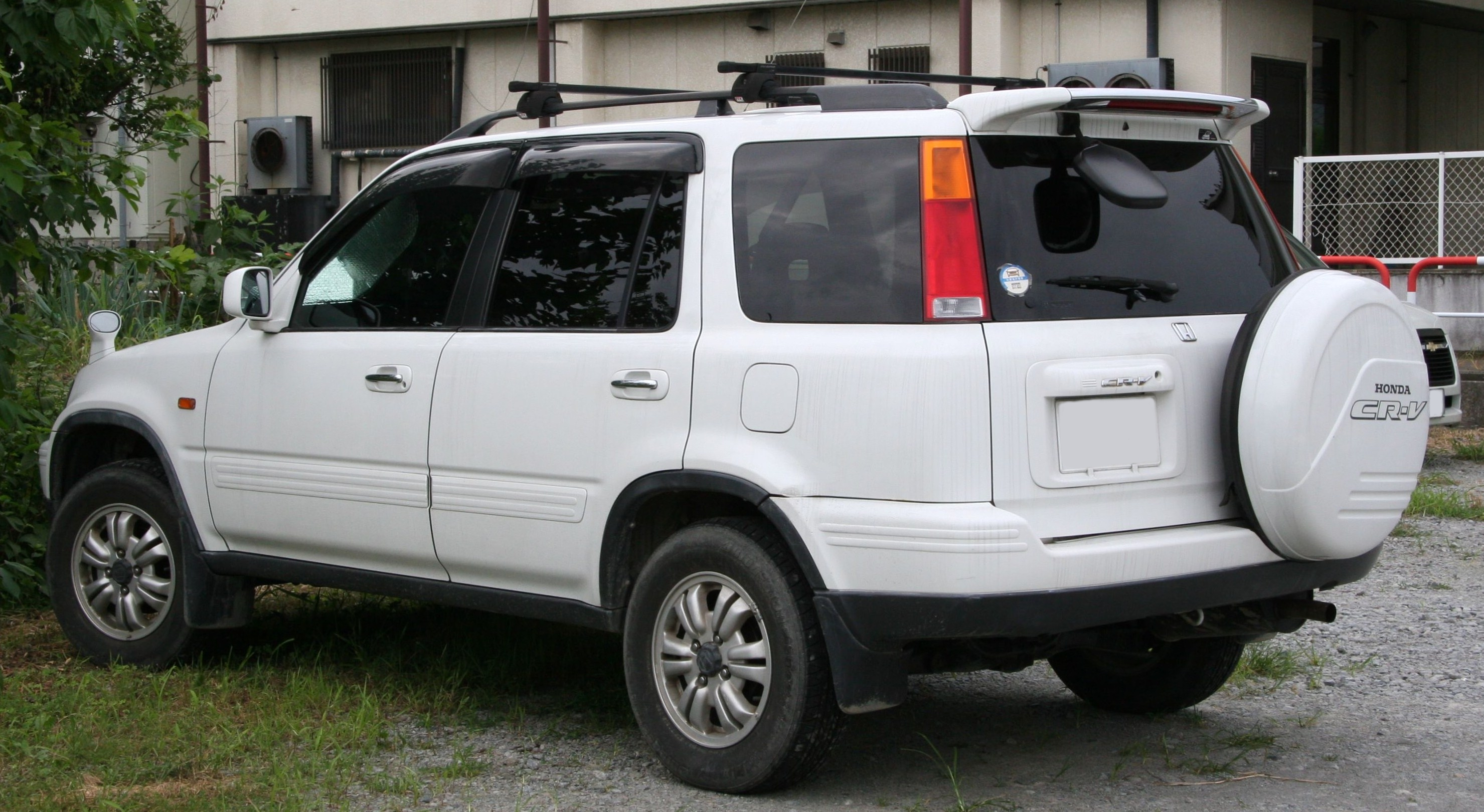 Honda CR-V